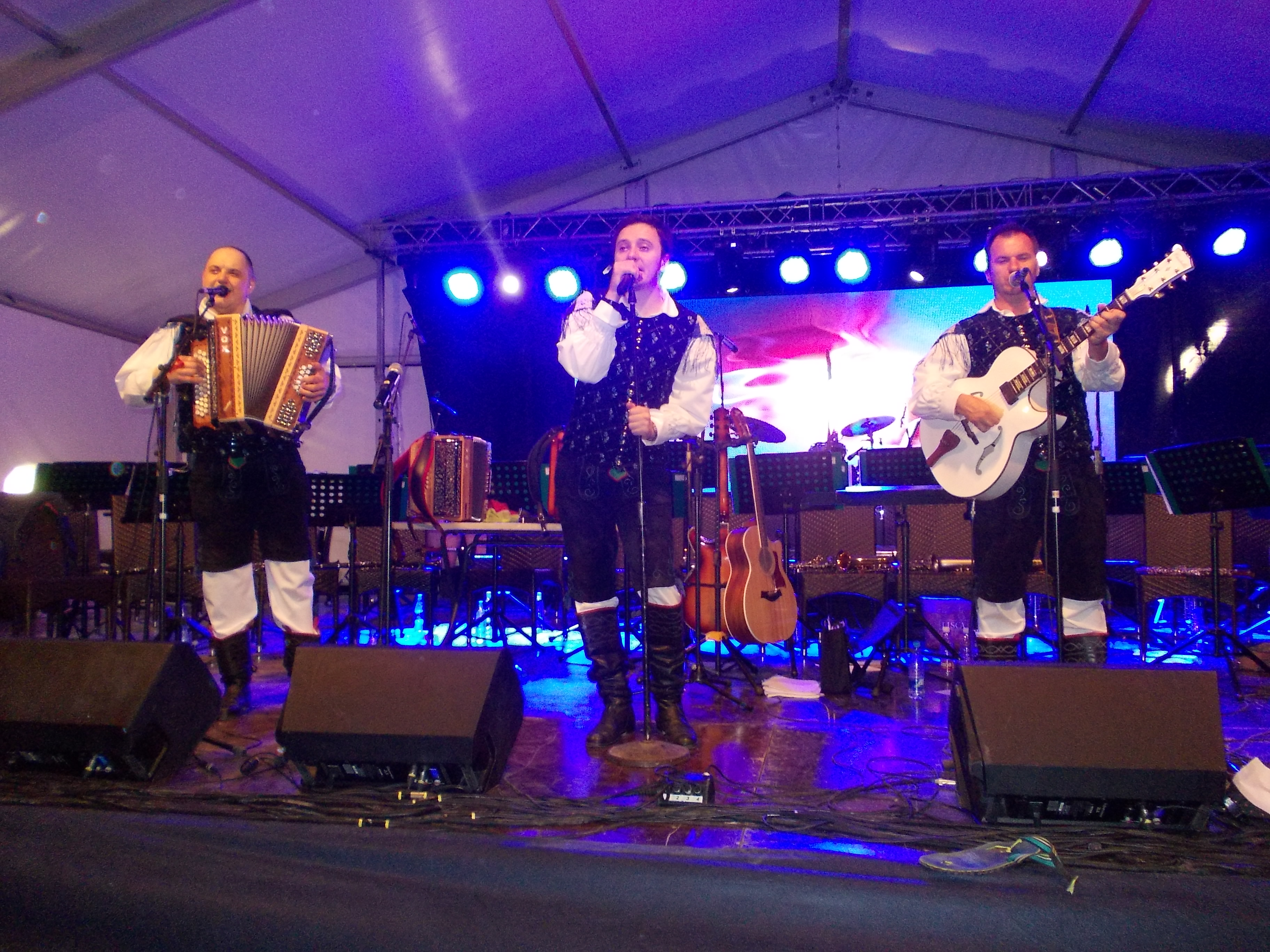 Modrijani in Zreče